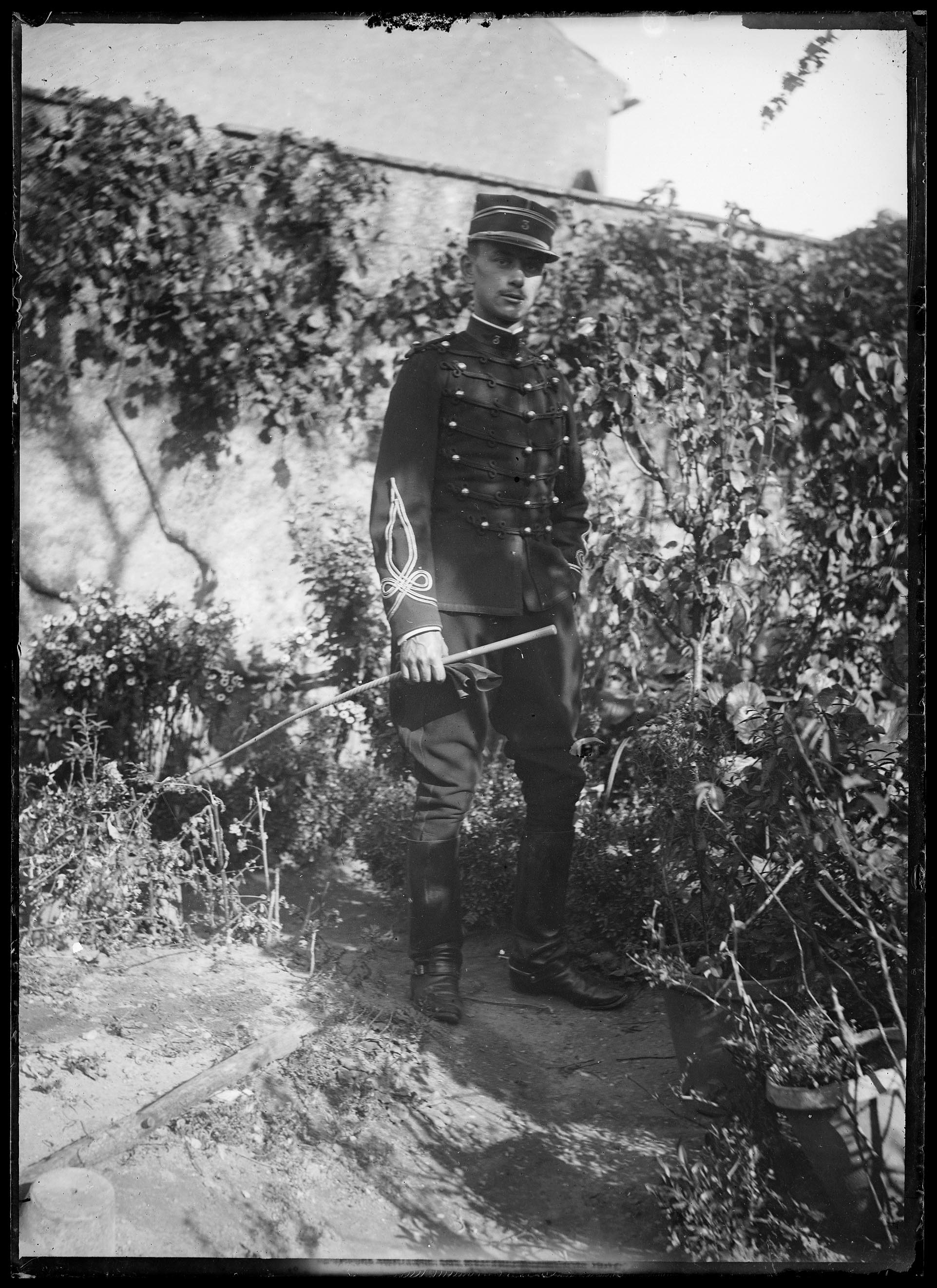 AD084 30Fi 0338: "Lieutenant Félix Marie, vêtu de l'uniforme du 3e régiment d'artillerie" [1]